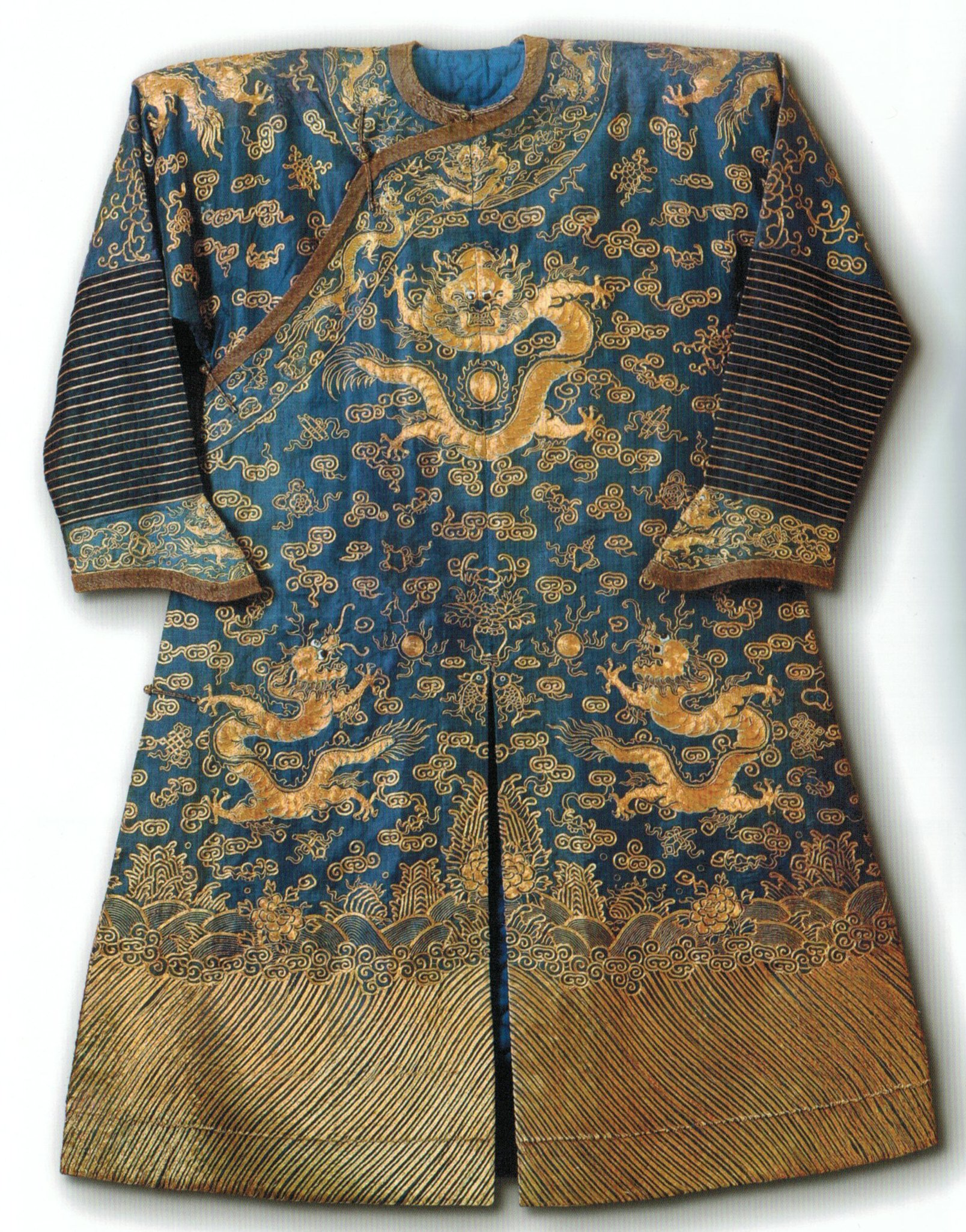 Chinese summer court robe ("dragon robe"), c. 1890s, silk gauze couched in gold thread, East-West Center